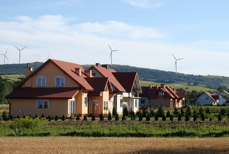 Category:Wolica, powiat sanocki